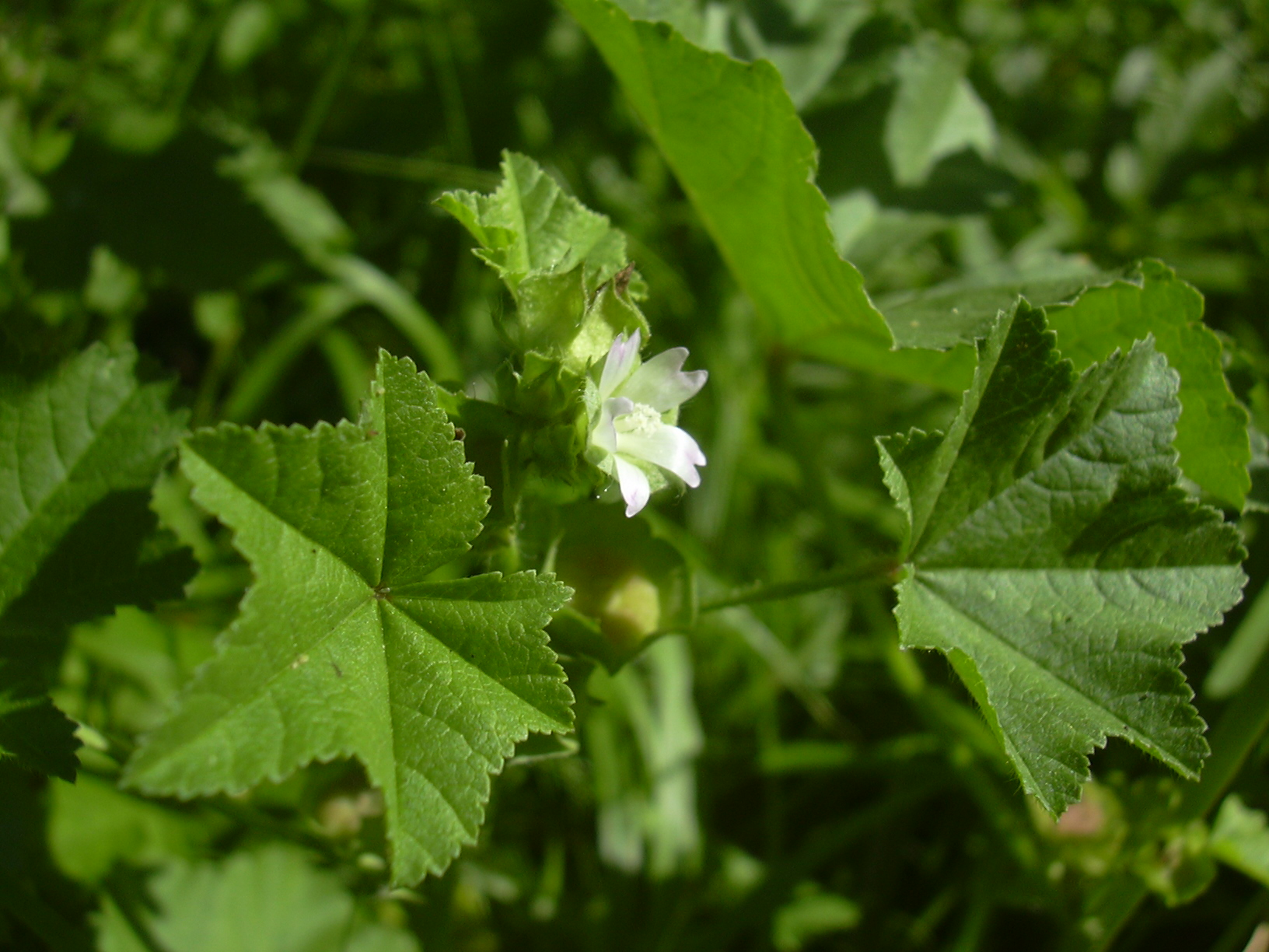 Malva parviflora (flower). Location: Maui, Puu o Kali